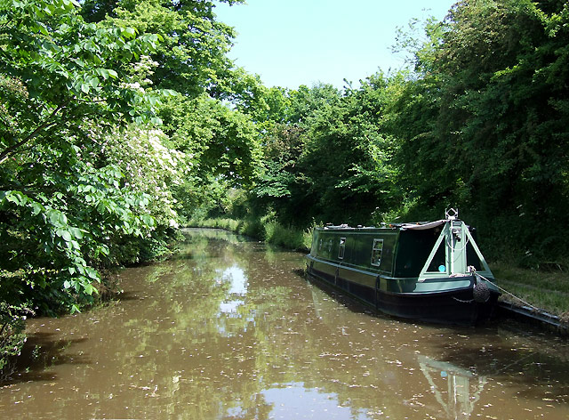 The Coventry Canal, Bedworth, Warwickshire This just north of Bulkington Bridge (No 14). The Act of Parliament enabling the construction of the Coventry Canal was passed in 1768, and construction as far as Atherstone by 1771 was followed by the company running out of money and the sacking of James Brindley. One of the purposes of the canal was to provide Coventry with a regular supply of cheap coal from the Bedworth coalfield, which it already did by 1769. The towpath here is used as part of The Centenary Way, a long distance walking path covering about 100 miles in Warwickshire.